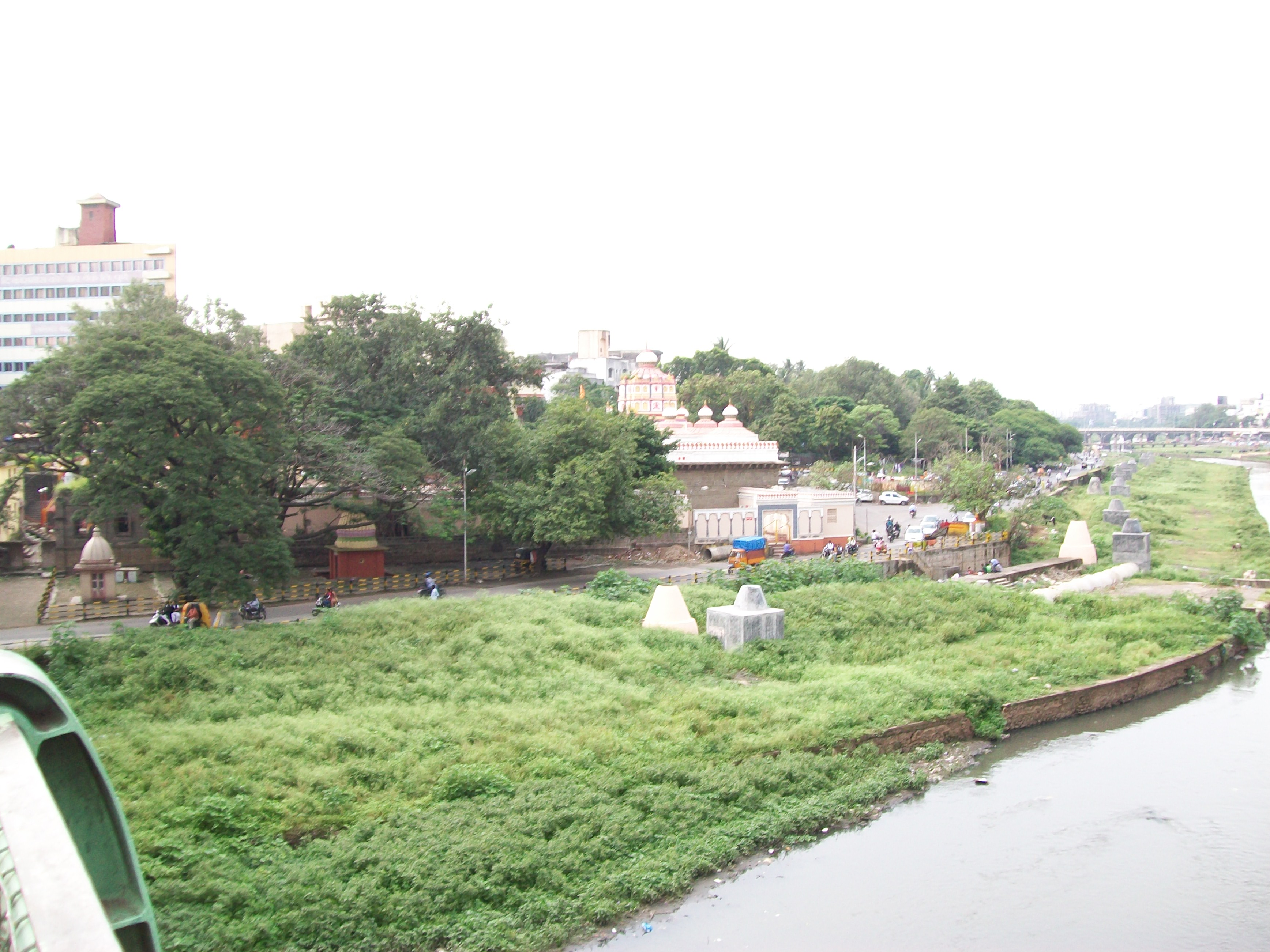 near om kareshwar temple in pune